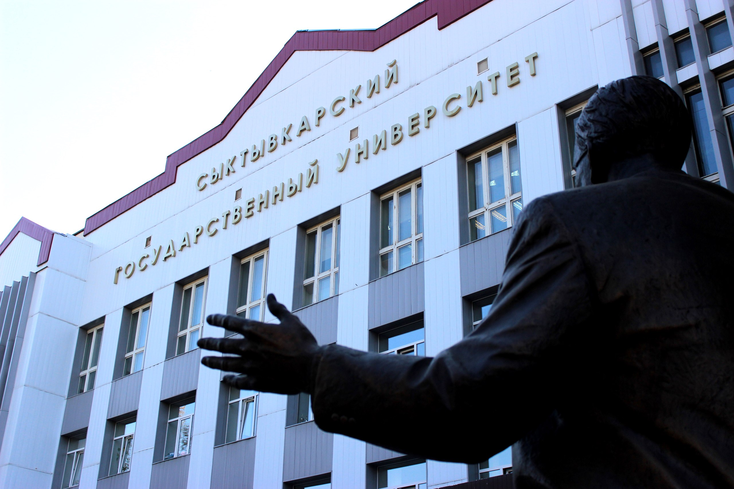 The facade of the main building of the Federal State Budget Educational Institution of Higher Education «Syktyvkar State University named after Pitirim Sorokin».